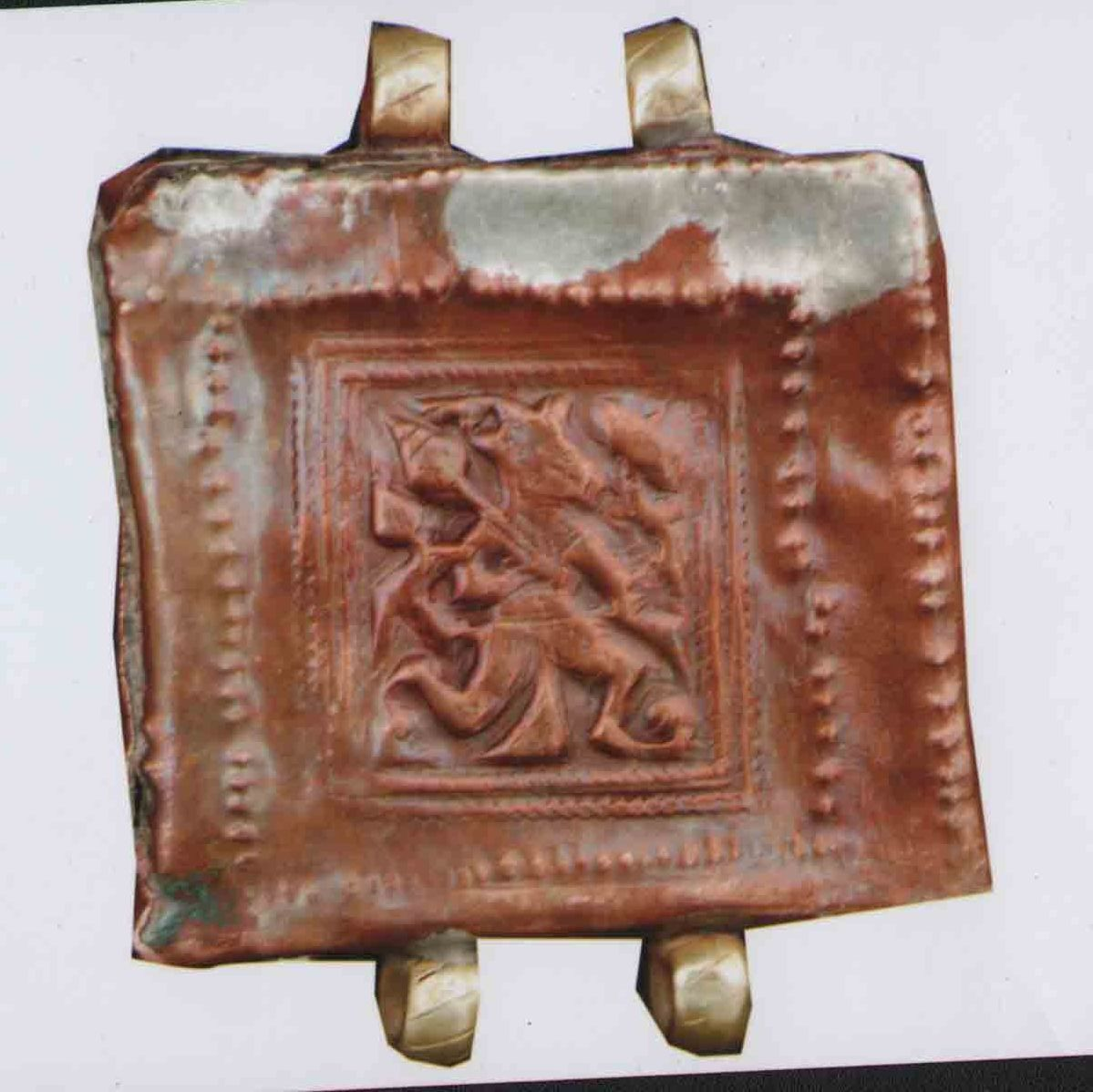 प.पू .श्री कल्याण स्वामी महाराजांच्या दंडातील तांब्याच्या मारुतीची पेटी . या पेटीचा आकार सुमारे २ x २इंच असून त्यावरून श्री कल्याण स्वामींच्या दंडाच्या आकाराची कल्पना करावी. श्री स्वामींच्या निर्याणानंतर हि पेटी डोमगाव चे देशमुख यांनी घेतली.तेव्हापासून ती त्यांच्याकडे पूजनासाठी आहे.सध्या ती देशमुखांचे वारस श्री.प्रसाद आणि श्री.जयराम देशमुख यांचेकडे आहे